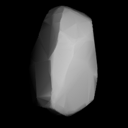 3D convex shape model of 731 Sorga, computed using light curve inversion techniques. J. Hanuš, J. Ďurech, M. Brož, B. D. Warner (June 2011). "A study of asteroid pole-latitude distribution based on an extended set of shape models derived by the lightcurve inversion method". Astronomy and Astrophysics 530: A134. ISSN 0004-6361. arXiv